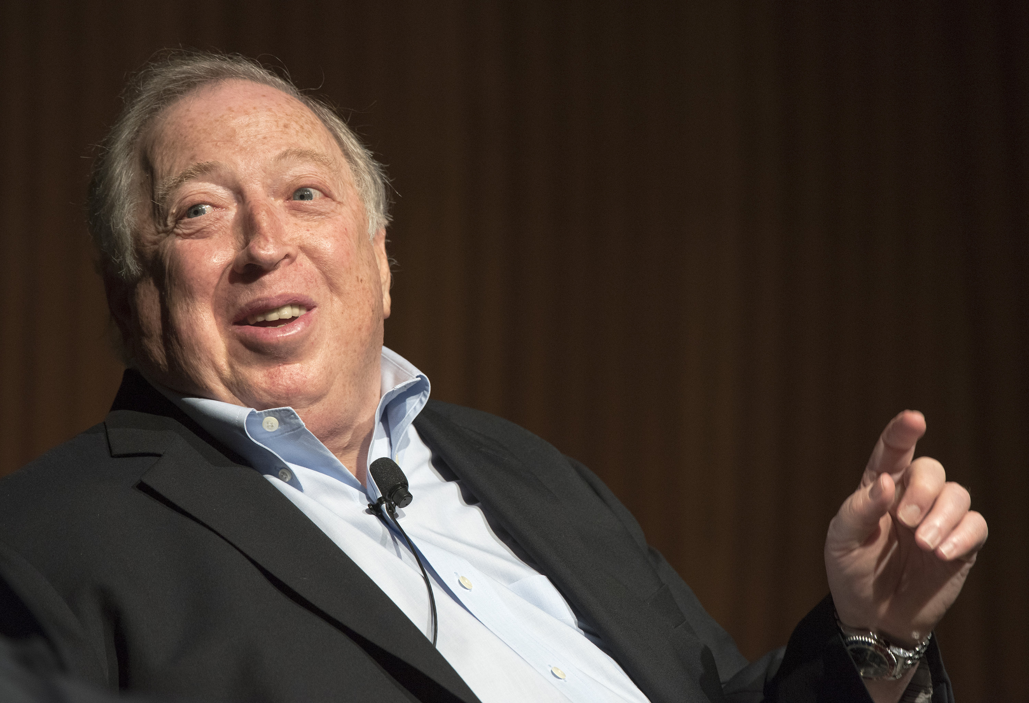 On Thursday evening, October 6th, 2016, the LBJ Presidential Library held a special evening with renowned photographer Neil Leifer, who shared a selection of his powerful photos and stories in a conversation with LBJ Library Director Mark Updegrove. Leifer's work has appeared on over 200 Sports Illustrated, Time, and People covers. In 2006, he was honored with the prestigious Lucie Award for Achievement in Sports Photography. His iconic photos of Muhammad Ali – including 35 of his fights – are among the best known of the late boxing legend. In 2014, Leifer was inducted into the International Boxing Hall of Fame, becoming the first photographer to be elected to a professional sports hall of fame.